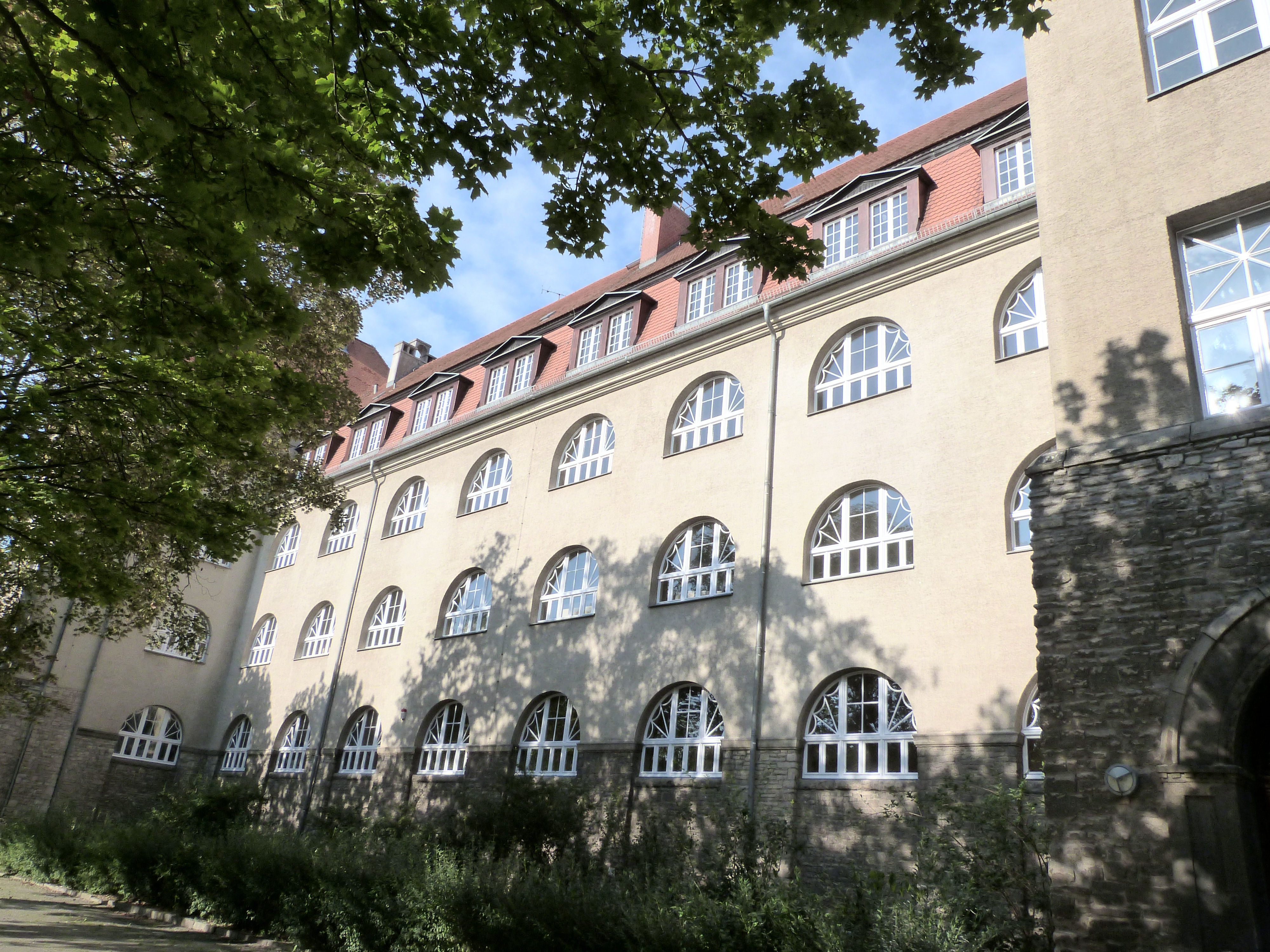 School Kooperative Gesamtschule "Ulrich von Hutten", formerly Luther school, Roßbachstraße, Halle (Saale)